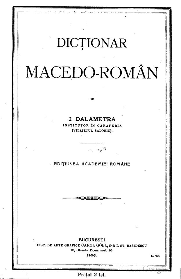 Dicționar Macedo-Român